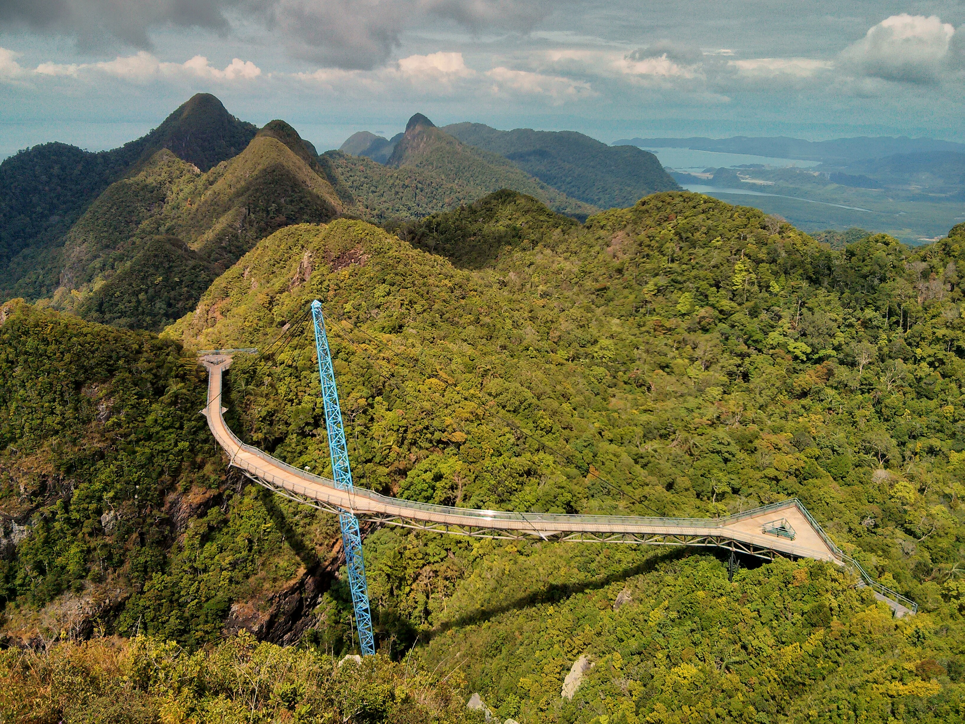 Taken with Nexus 4, HDR mode, processed on phone.